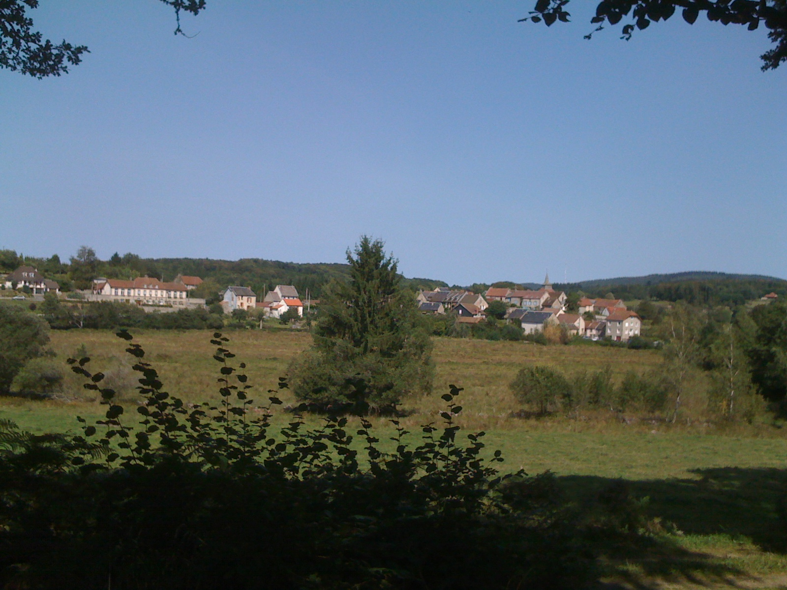 The town of La Chapelle Taillefert, France